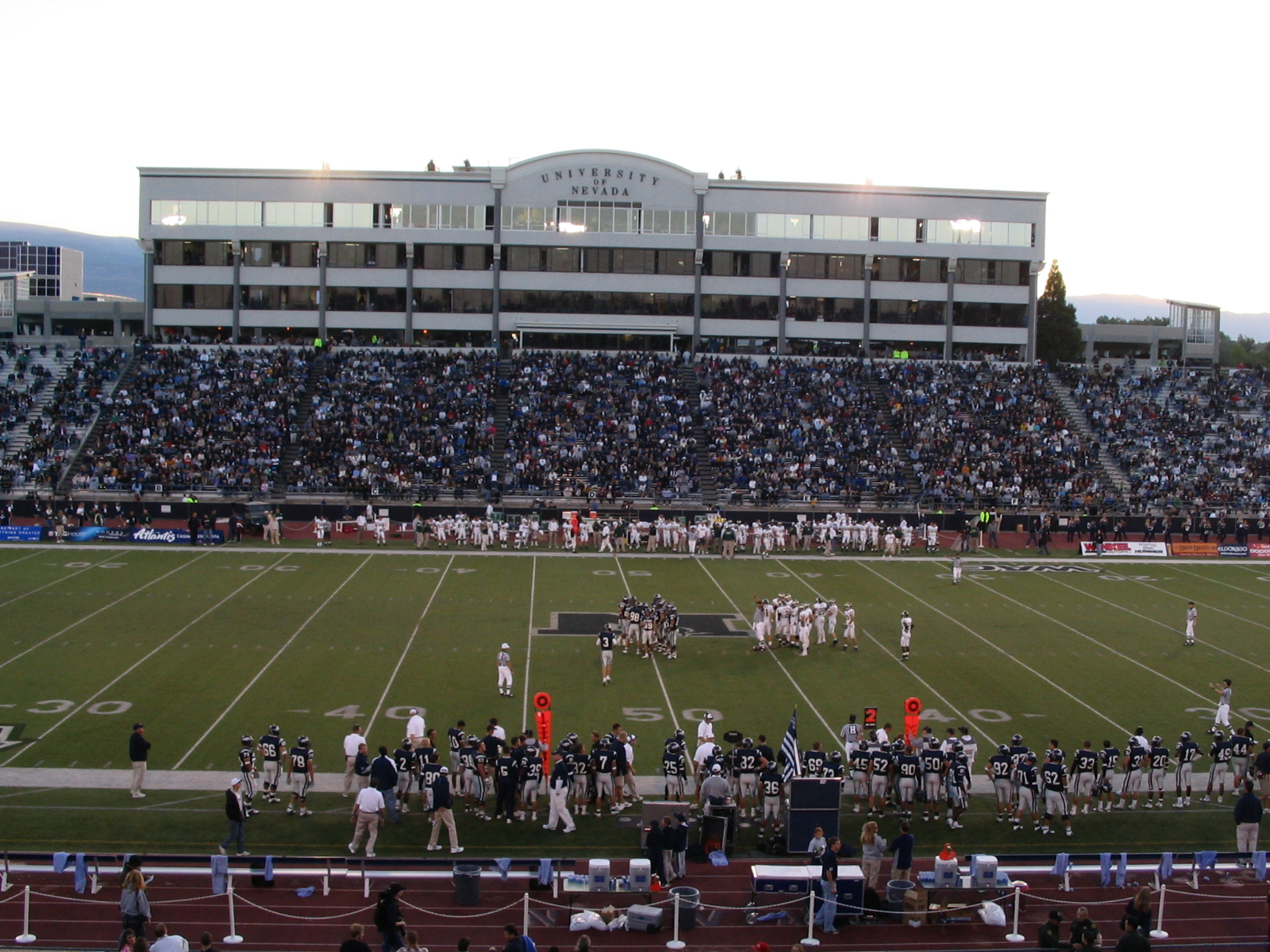 University of Nevada 28, Colorado State University 10.